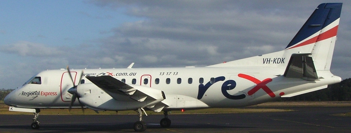 Summary REX - Regional Express Saab 340A VH-KDK at Burnie Airport, Tasmania. Named City of Mt Gambier this was the first Saab 340 aircraft to fly in the Southern Hemisphere (with Kendell Airlines) and has always operated in Australia in this registration since new (Feb 1985), eventually this great icon which has served a total of 5 states of regional areas in Australia for over 21 years will be replaced with a Saab 340B plus in 2008. Photo taken and uploaded on 16 October 2006 by Paul Corfiatis